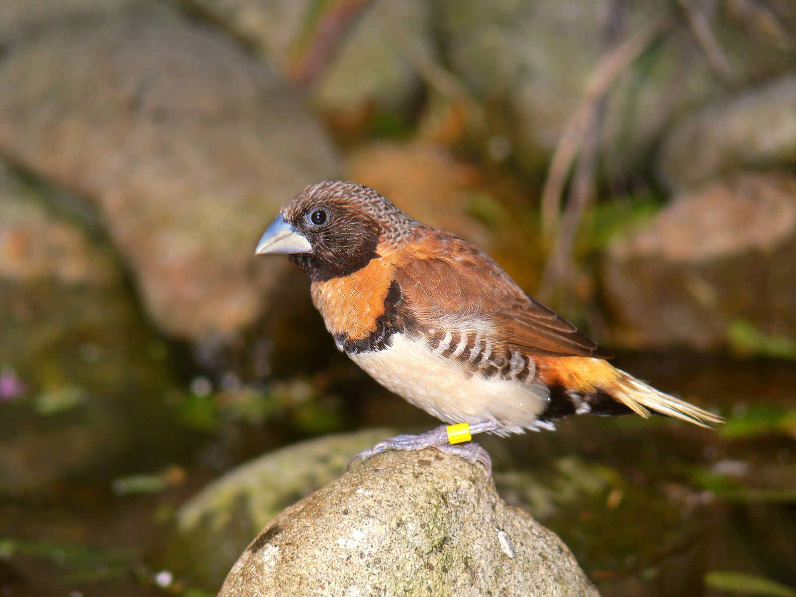 Cheastnut-breasted Mannikin, Lonchura castaneothorax.